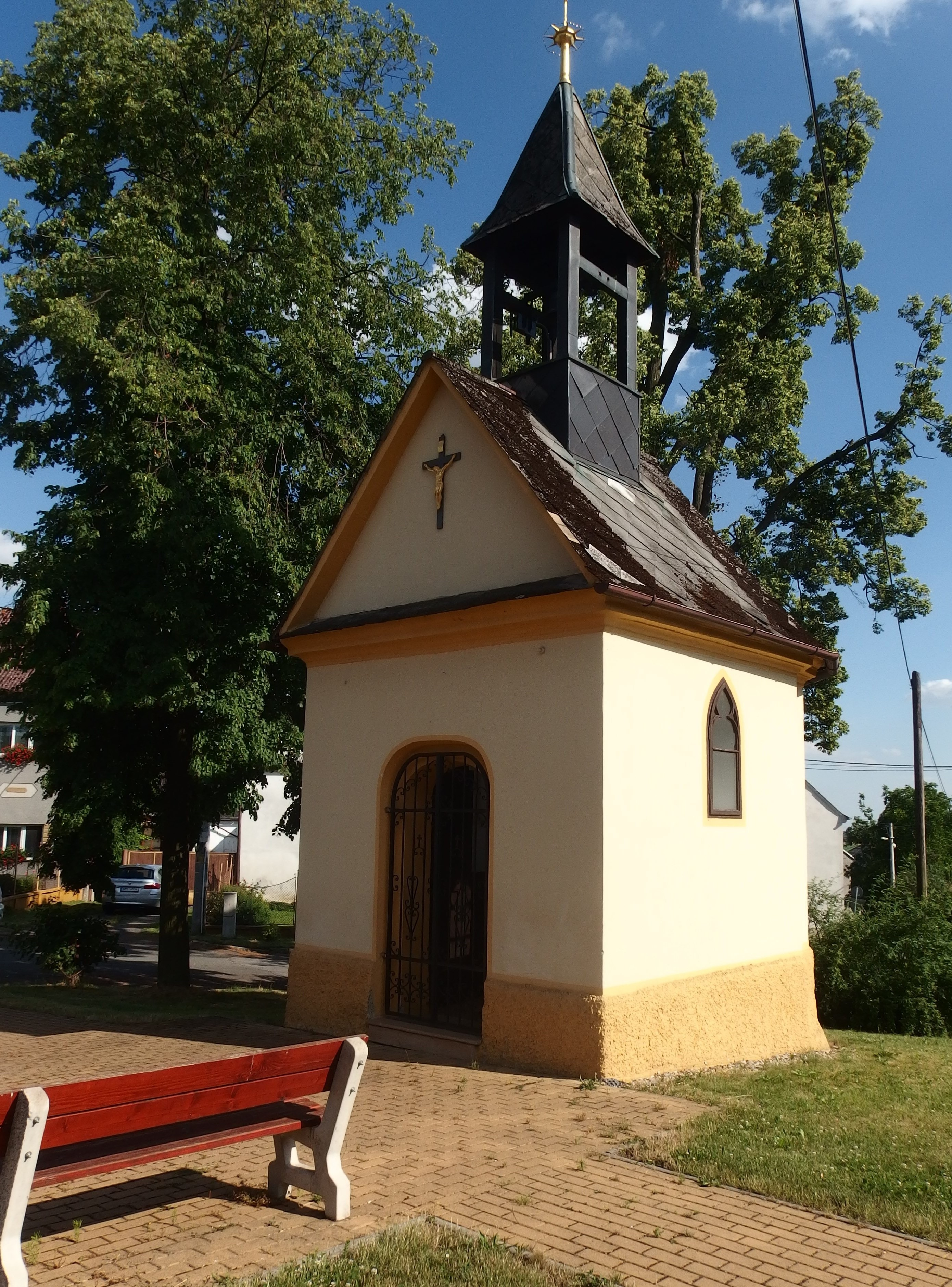 Medlov, Olomouc District, Czechia, part Zadní Újezd.